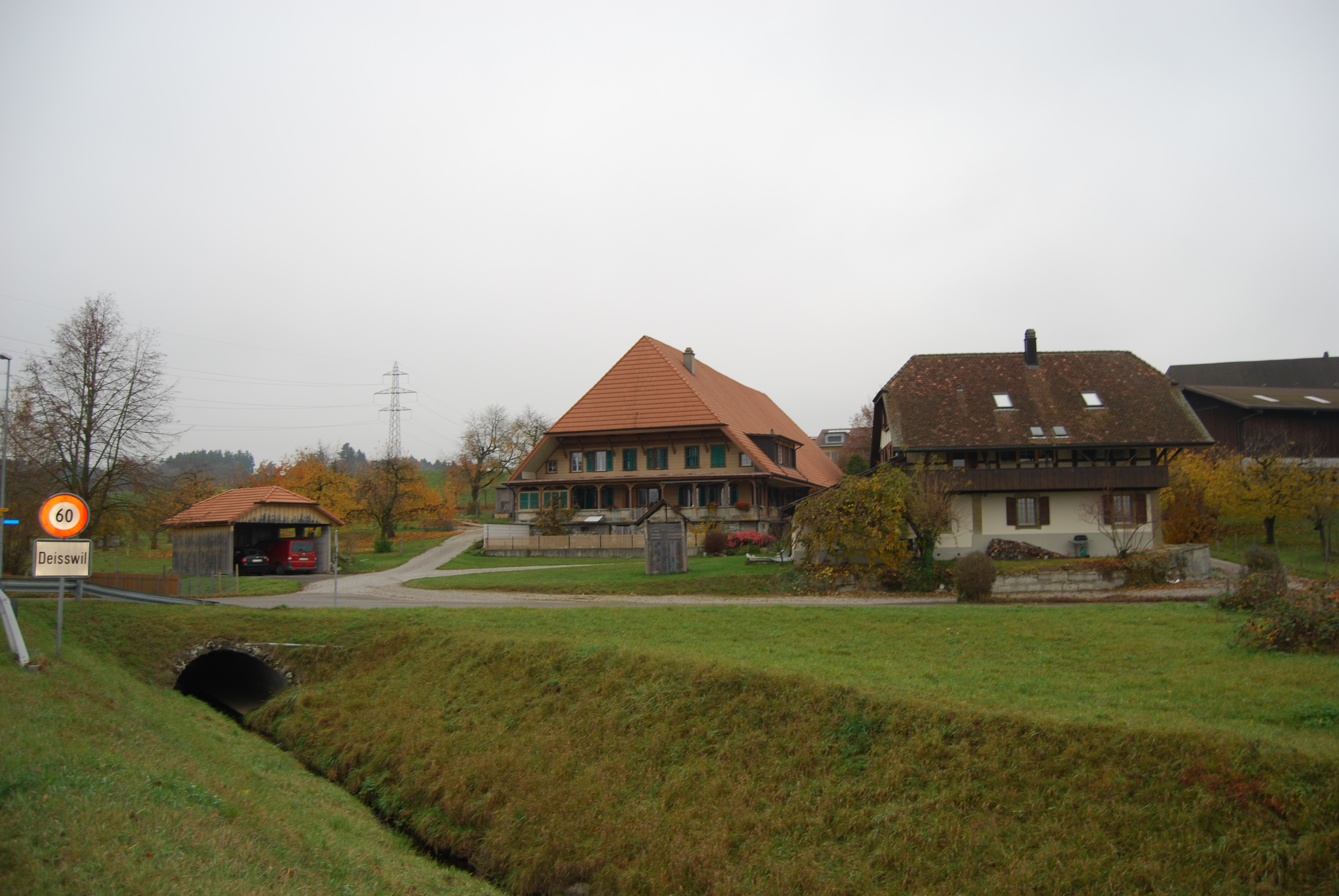 Deisswil bei Münchenbuchsee, canton of Bern, SwitzerlandEsperanto: Deisswil ĉe Münchenbuchsee, KantonoBerno, Svislando